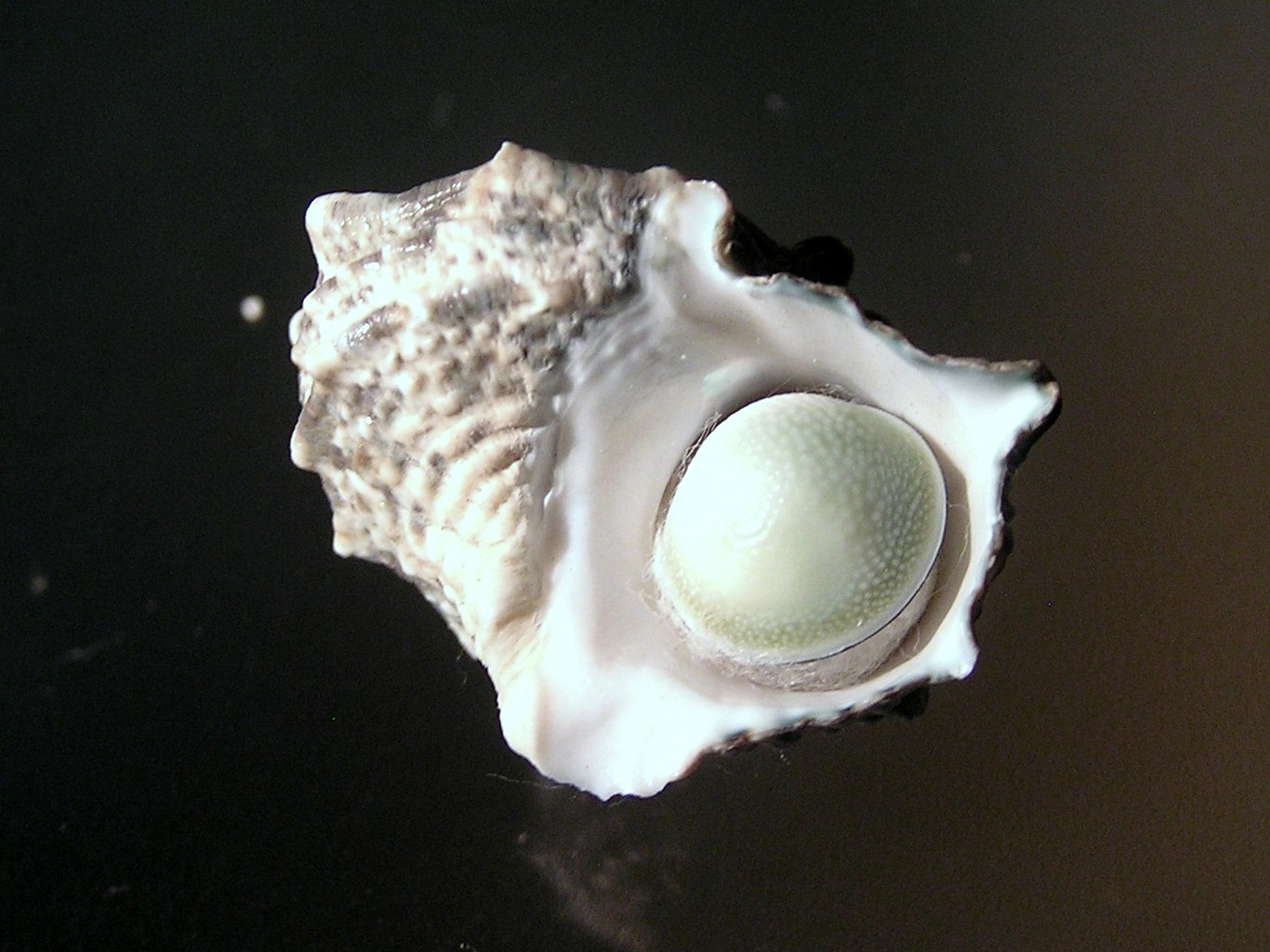 Lunella granulata (Gmelin, 1791) , a sea snail from the family Turbinidae; Tanzania